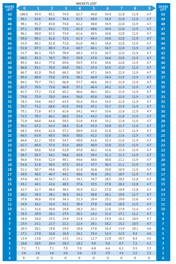 The D-L (Duckworth/Lewis) method of adjusting target scores in interrupted one-day cricket matches - Standard Edition